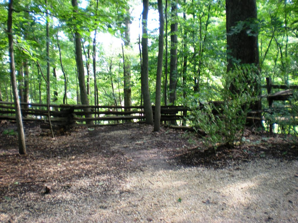 Hundreds of African American slaves are buried here in unmarked graves.